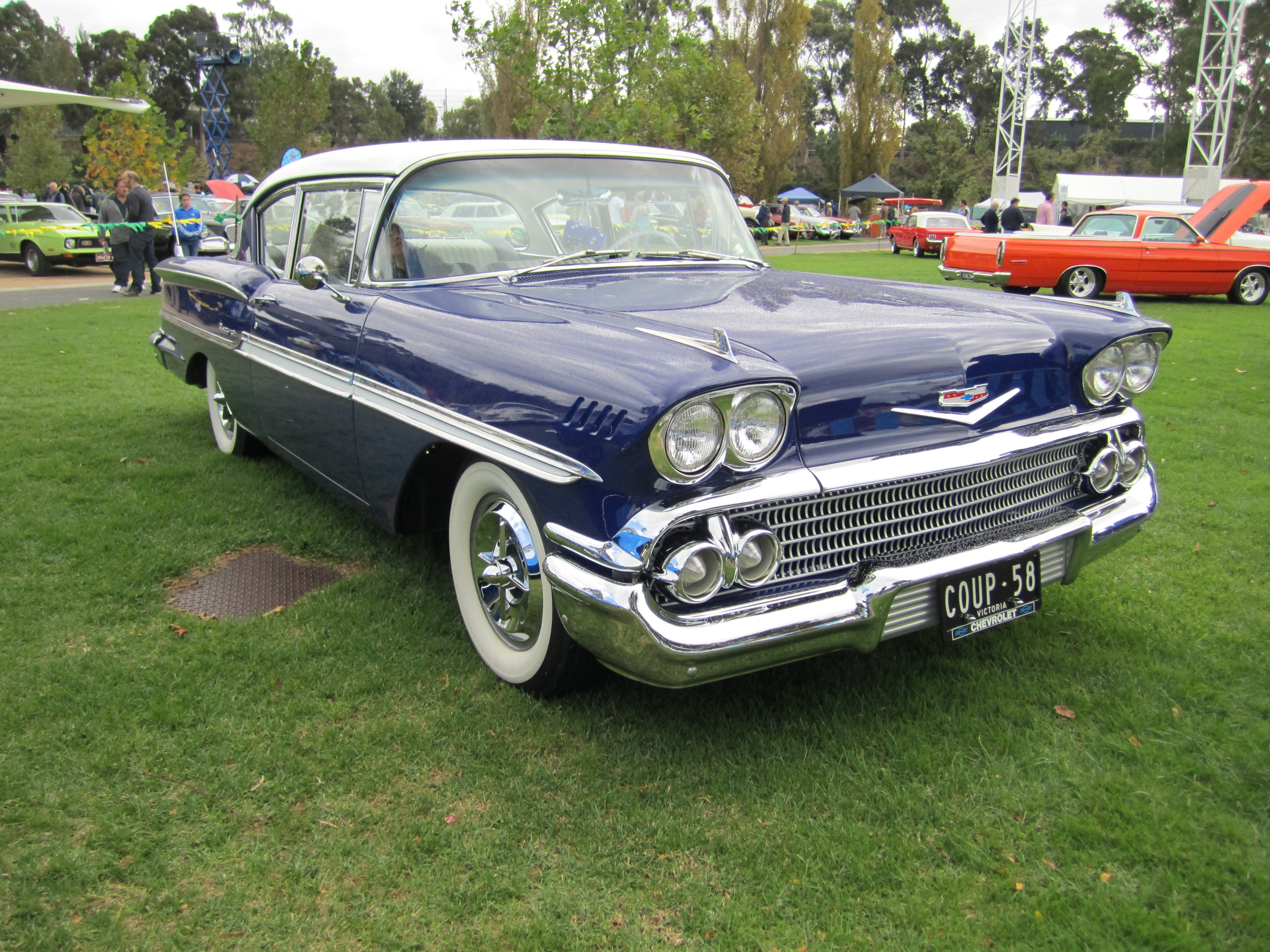 1958 Chevrolet Biscayne 2-Door Sedan. 1958 Chevrolets were available in Del Ray, Biscayne, Bel Air & Bel Air Impala trim levels in 2 & 4 door Sedan, 2 & 4 door Hardtop and Convertible body styles. The 2 & 4 door Wagons were marketed as a separate series under the names Yeoman, Brookwood and Nomad. Engines were 235 cu in 6 cyl, 283 & 348 cu in V8s.